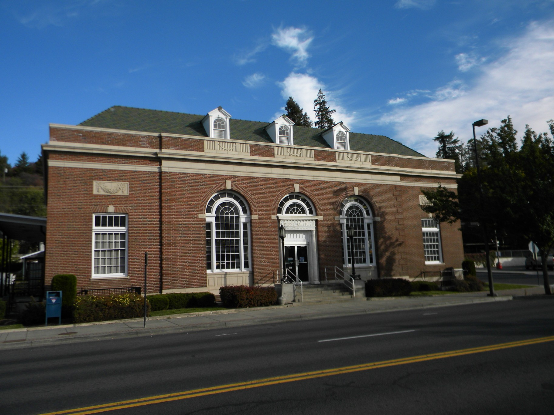 US Post Office-Colfax Main